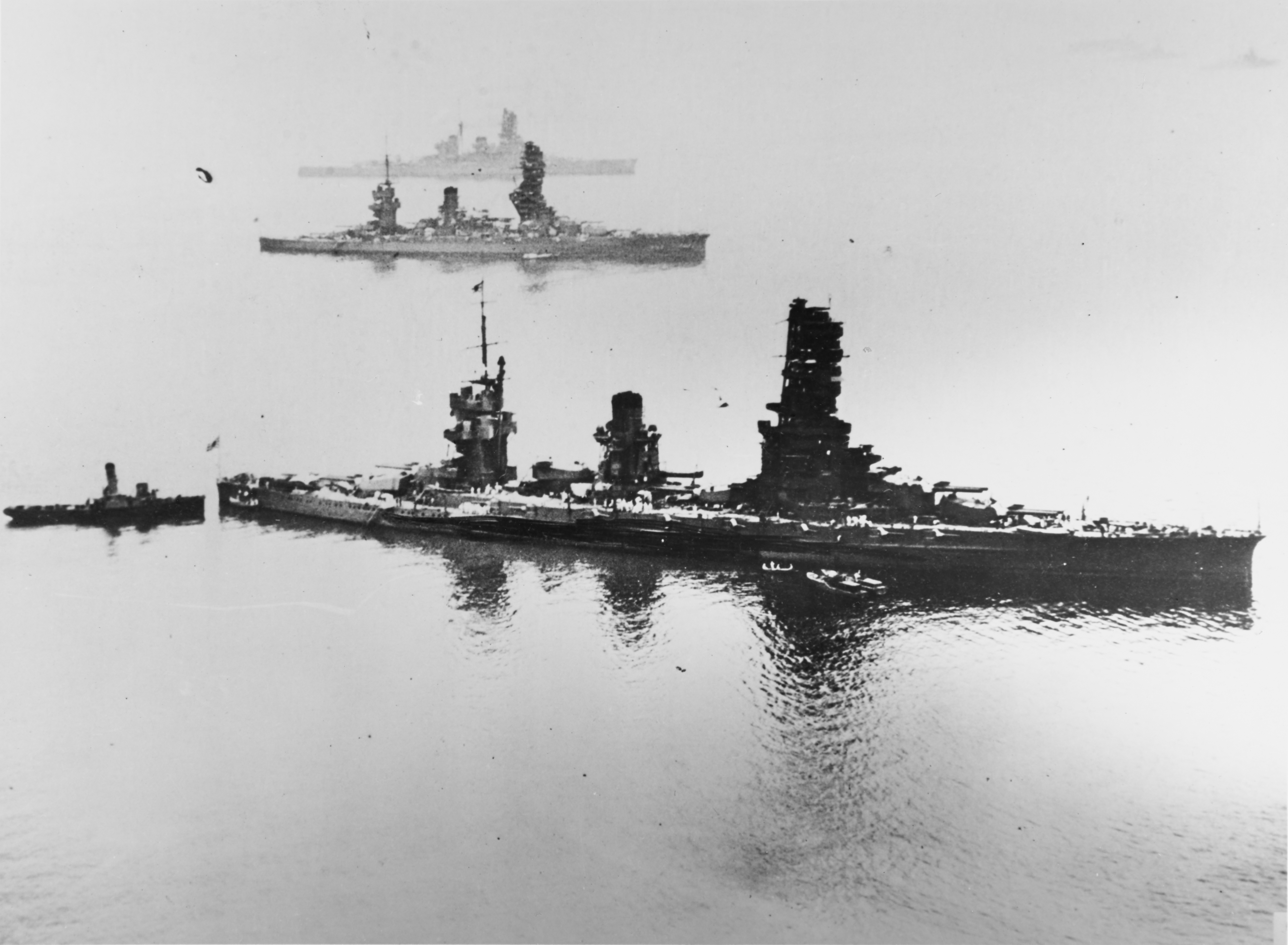 Yamashiro (Japanese Battleship, 1917) in Tokyo Bay, Japan, after 1935. Behind her are the battleships Fuso and Haruna (most distant). Faintly visible in the right distance are two cruisers and an aircraft carrier.